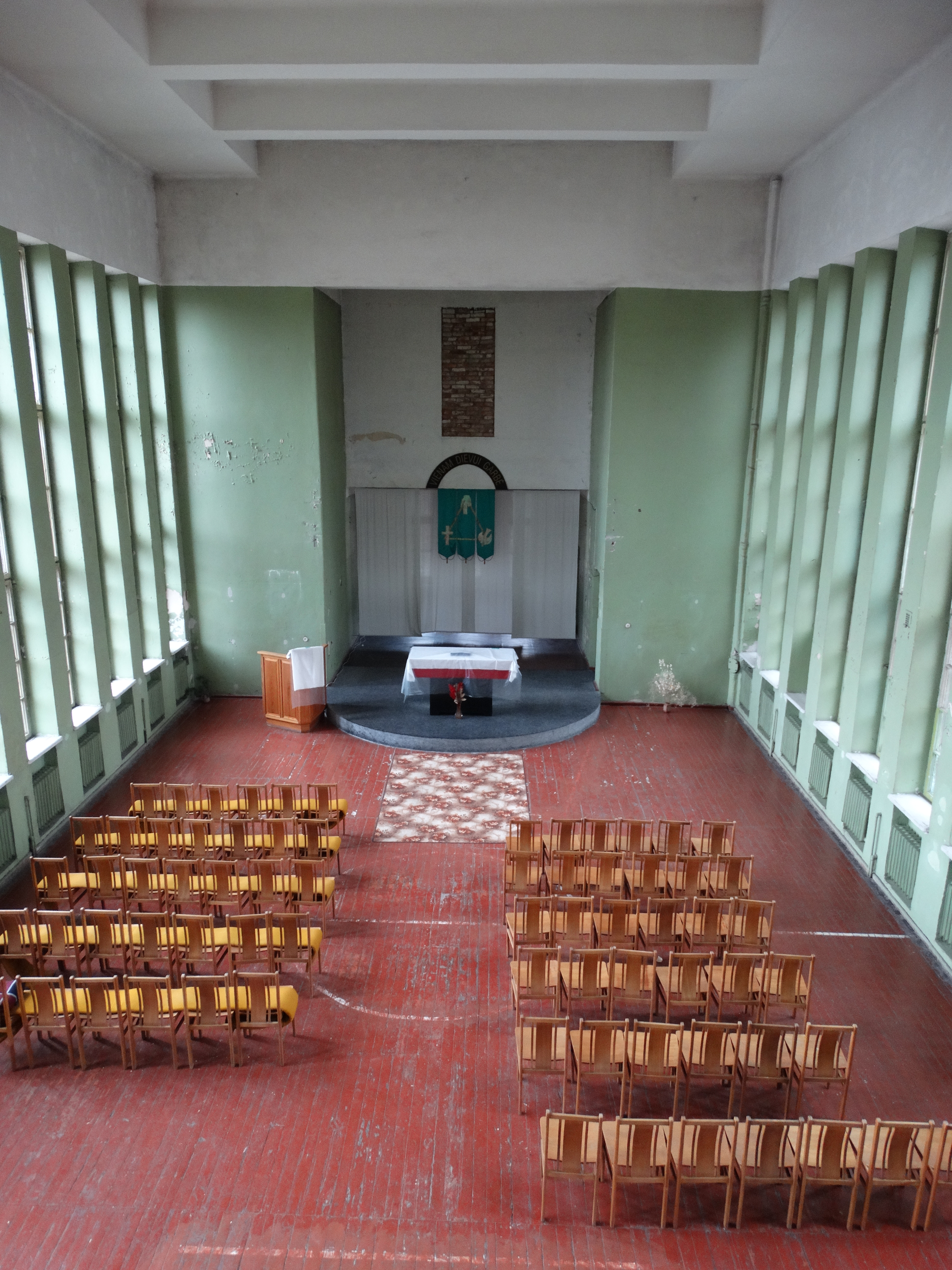 Evangelical Reformed Church in Kaunas, Lithuania